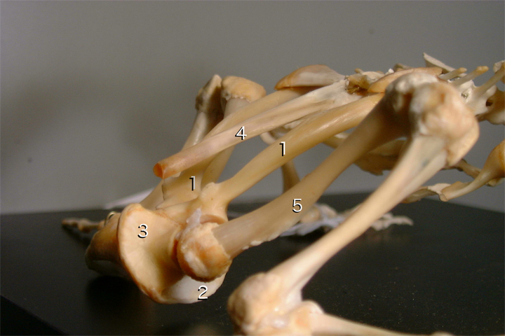 Pelvic girdle of Bufo bufo: ilium pubis ischium urostyle femur